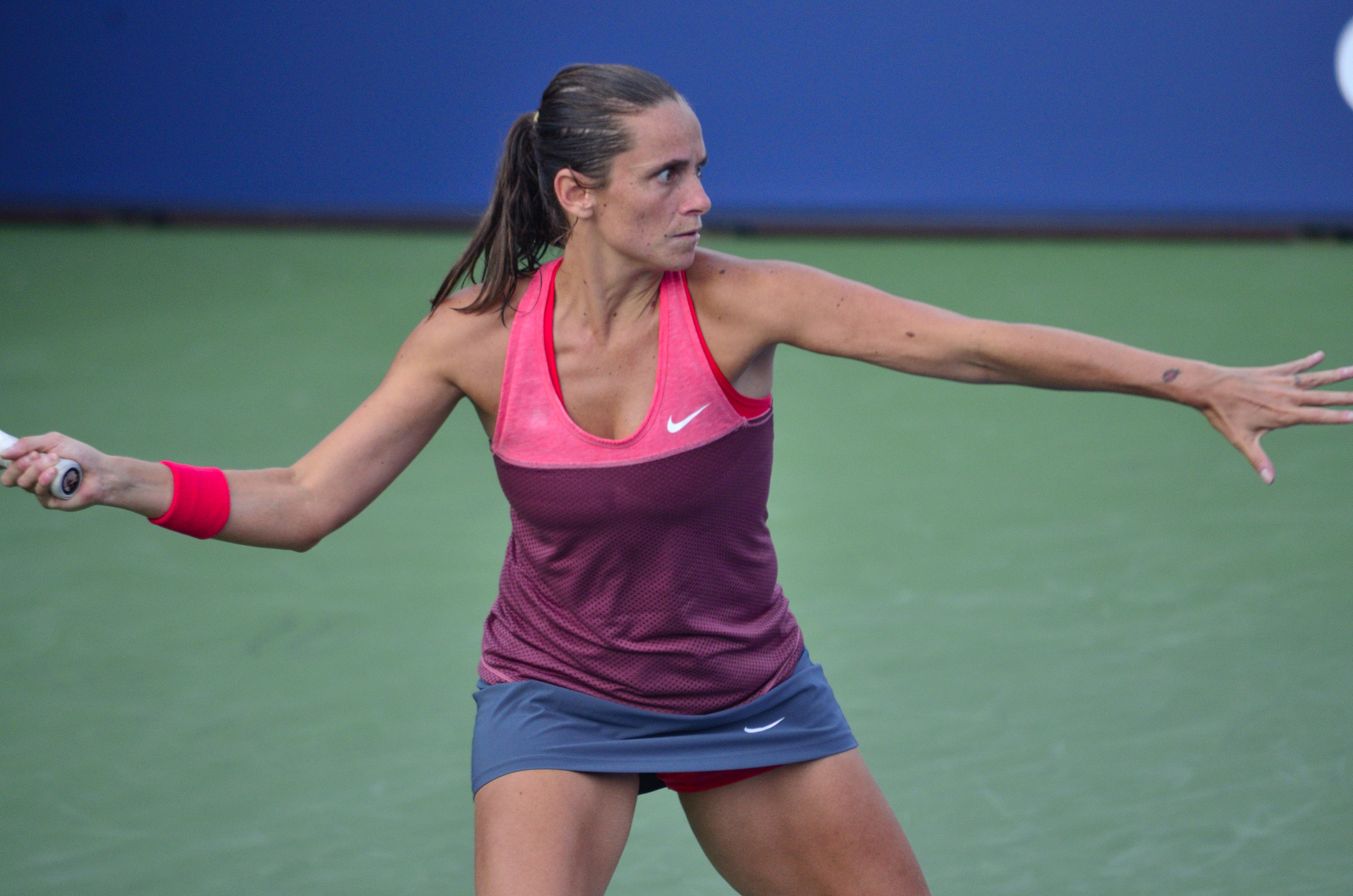 Queens, NY August 30, 2013 Sara Errani (ITA) / Roberta Vinci (ITA) [1] def. Daniela Hantuchova (SVK) / Martina Hingis (SUI) Court 17